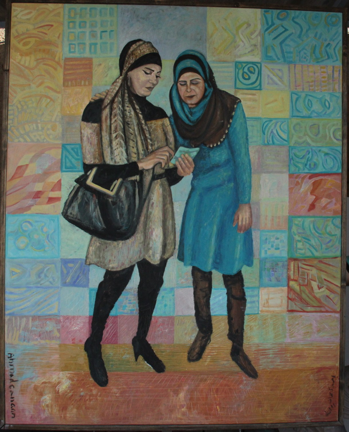 Ahmad Canaan. Two Women and a Smart Phone. Oil on canvas, 2013